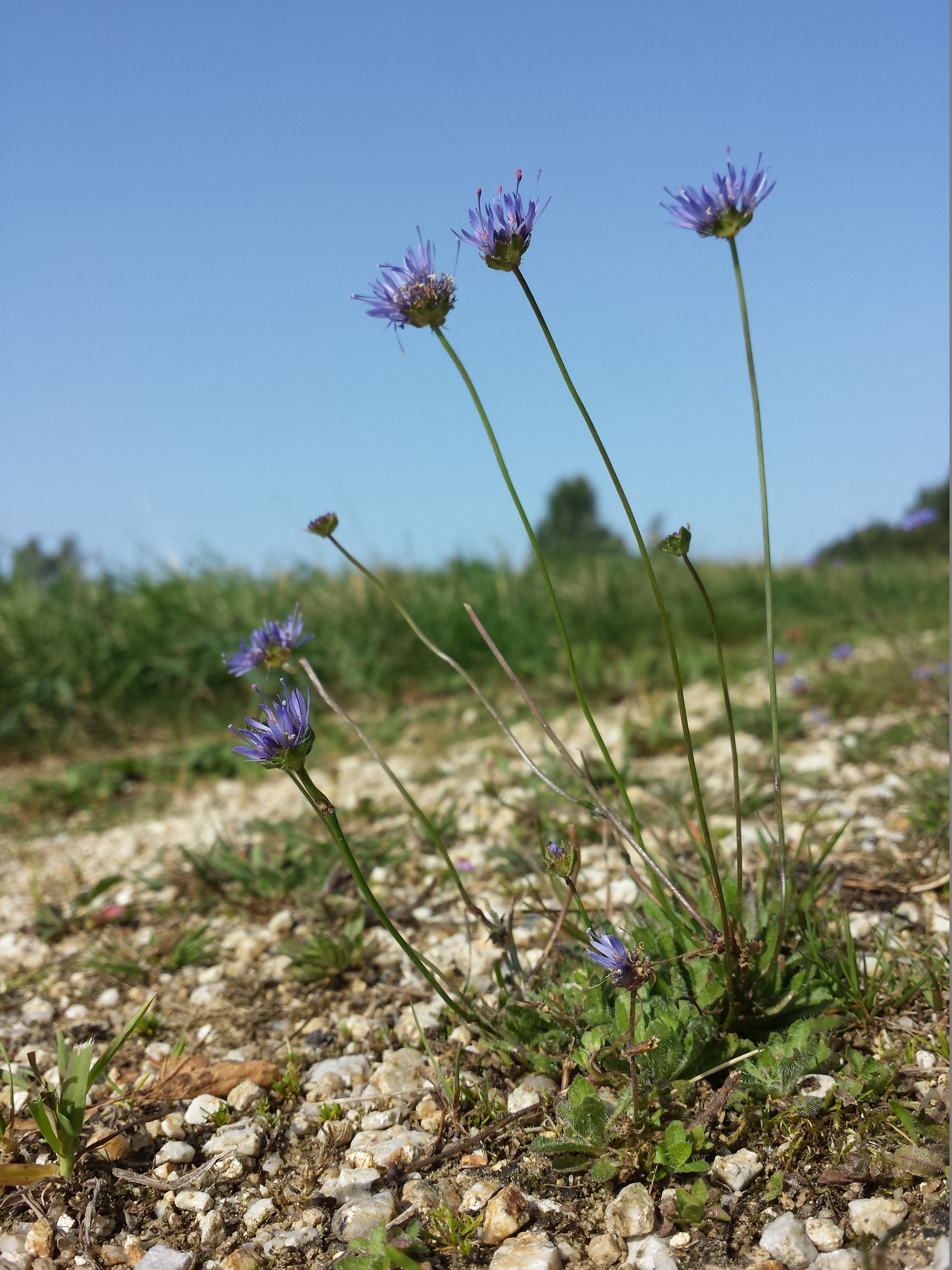 Habitus Taxonym: Jasione montana ss Fischer et al. EfÖLS 2008 ISBN 978-3-85474-187-9 Location: next to Griesbach, Groß-Gerungs, district Zwettl, Lower Austria - ca. 800 m a.s.l. Habitat: wayside